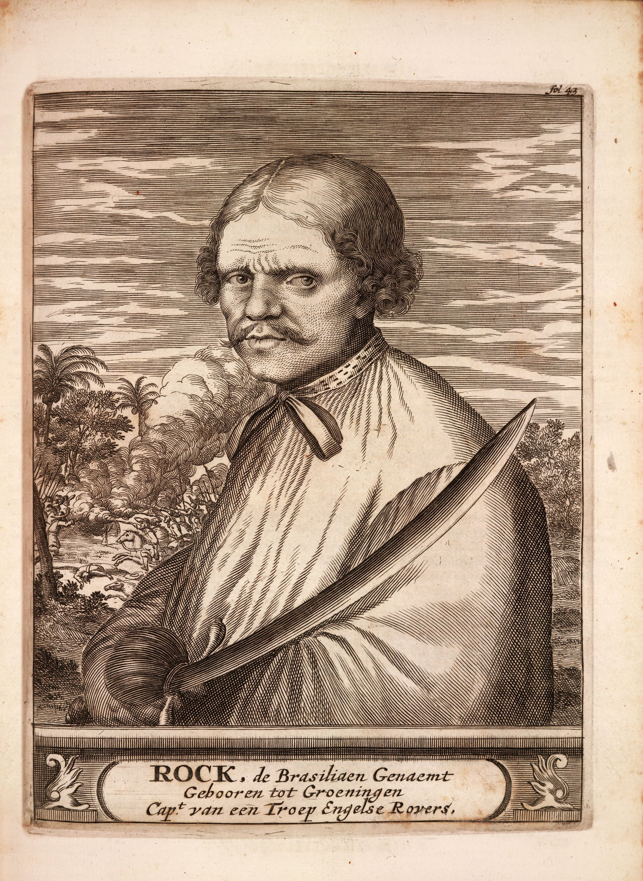 Page number 9 of The Buccaneers of America